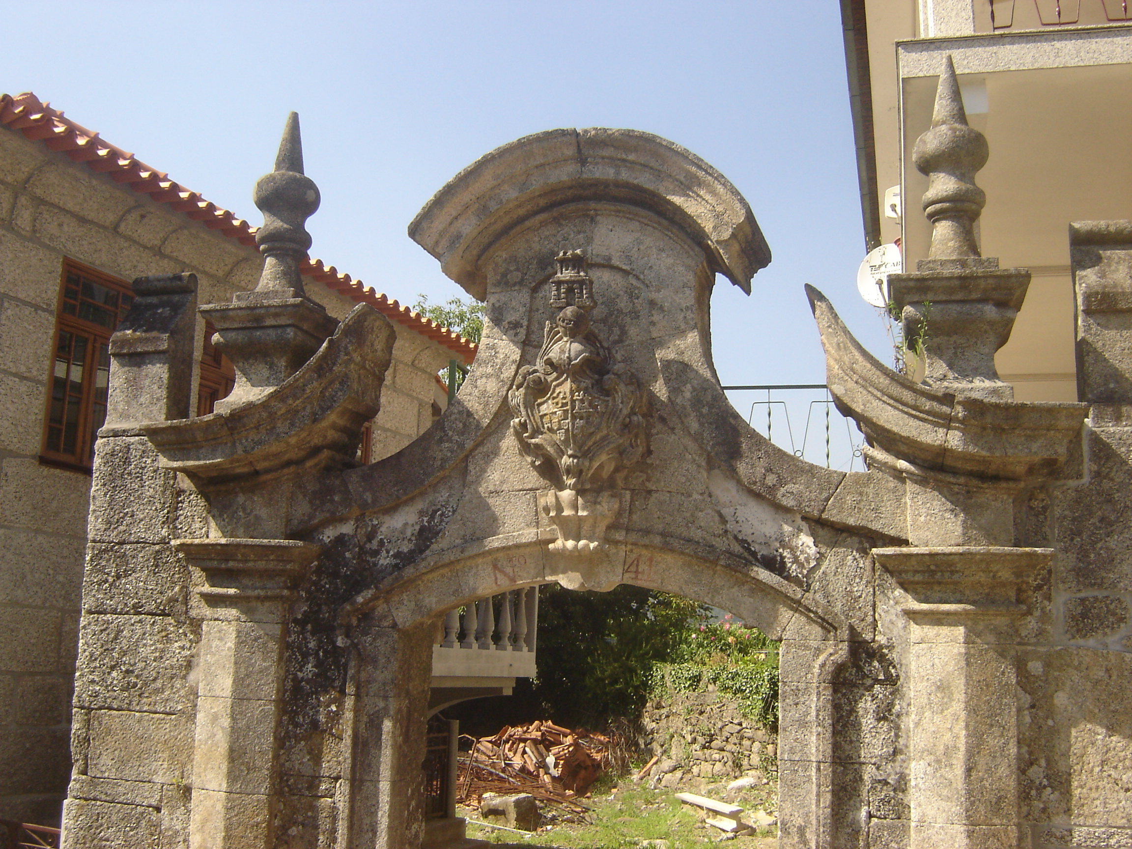 aboadela